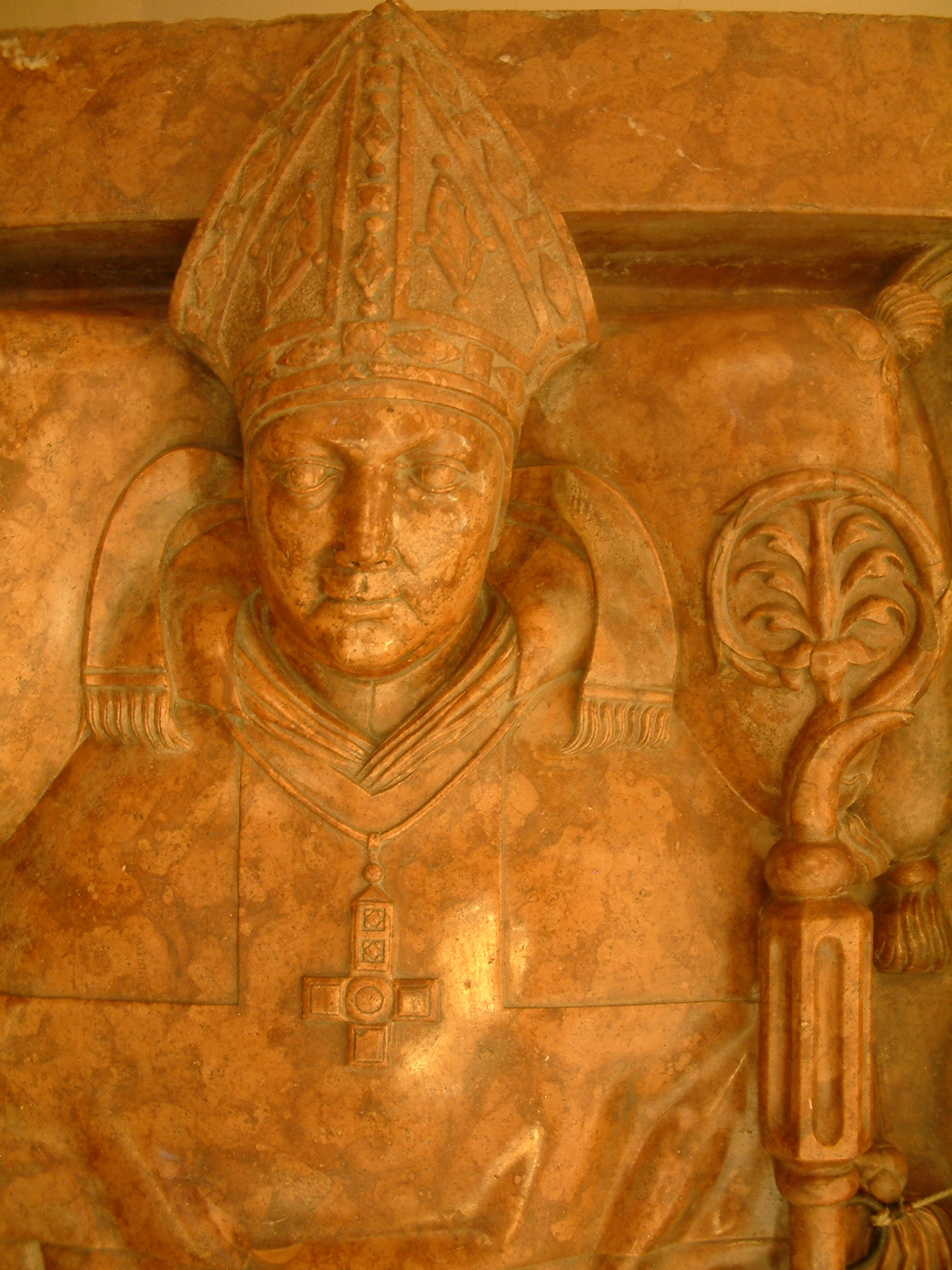 Part of Tomb of Jan Lubrańśki, Poznań Cathedral